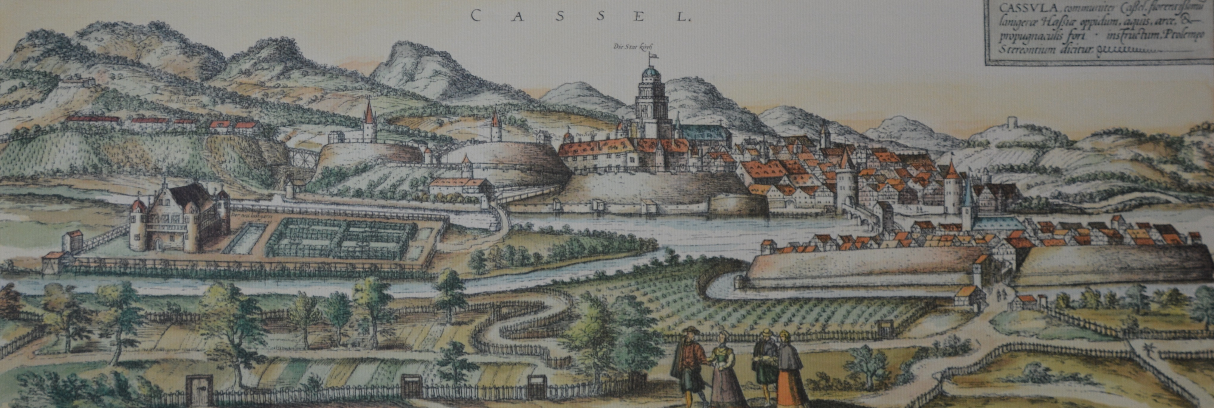 Kassel by Georg Braun; Frans Hogenberg: Civitates Orbis Terrarum, 1572